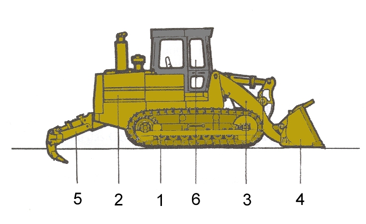 Diagram of a tracked loader